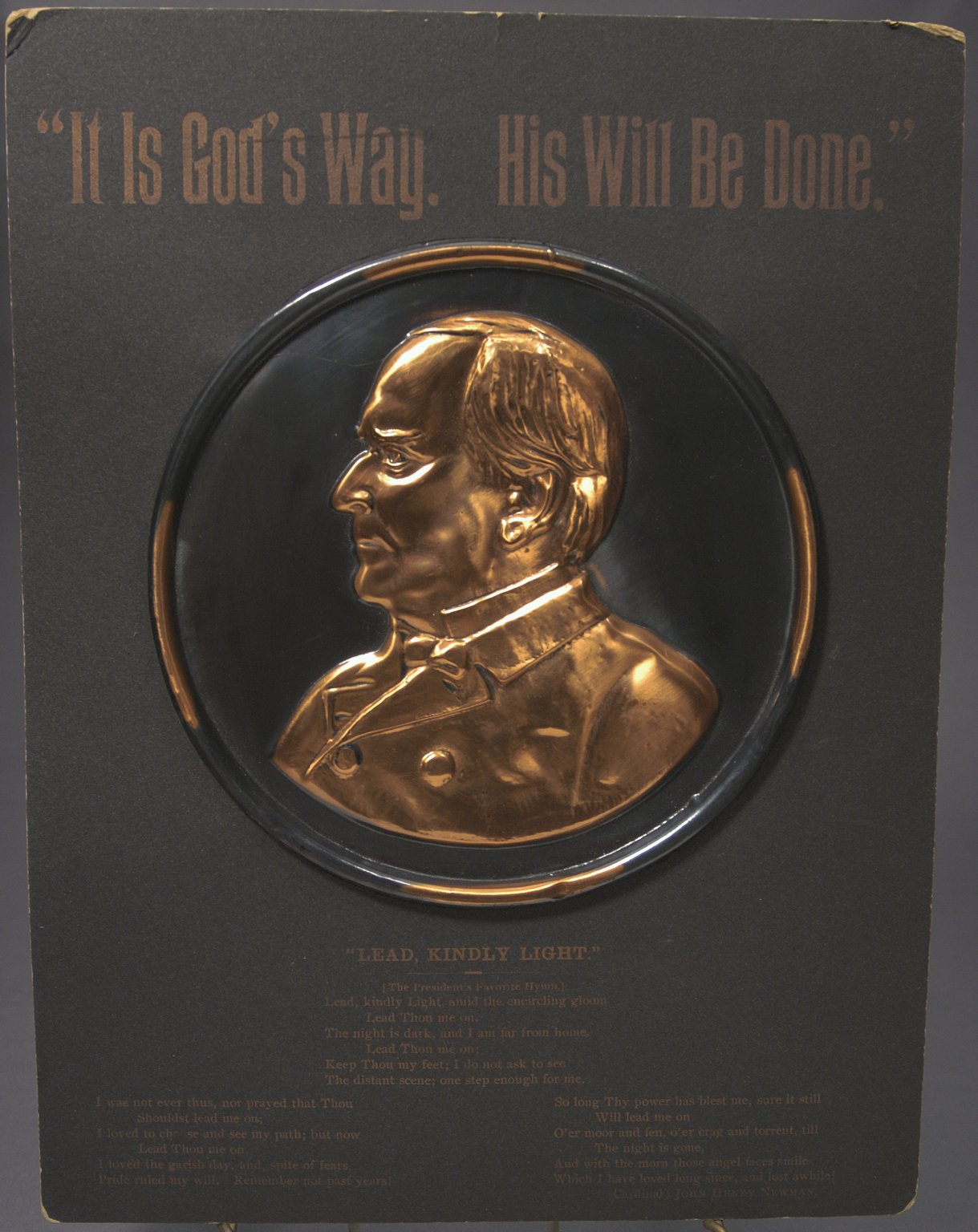 Collection: Cornell University Collection of Political Americana, Cornell University Library Repository: Susan H. Douglas Political Americana Collection, #2214 Rare & Manuscript Collections, Cornell University Library, Cornell University Title: McKinley "It is God's Way / Lead, Kindly Light" Portrait Plaque, ca. 1901 Political Party: Republican Date Made: ca. 1901 Measurement: Plaque: 12 x 9 in.; 30.48 x 22.86 cm Classification: Metalwork Persistent URI: There are no known U.S. copyright restrictions on this image. The digital file is owned by the Cornell University Library which is making it freely available with the request that, when possible, the Library be credited as its source.